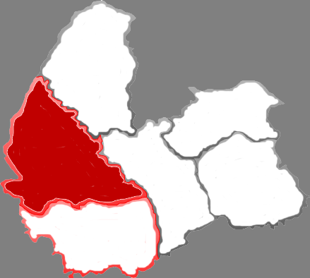 Location of Pinglu district in Shuozhou City, China